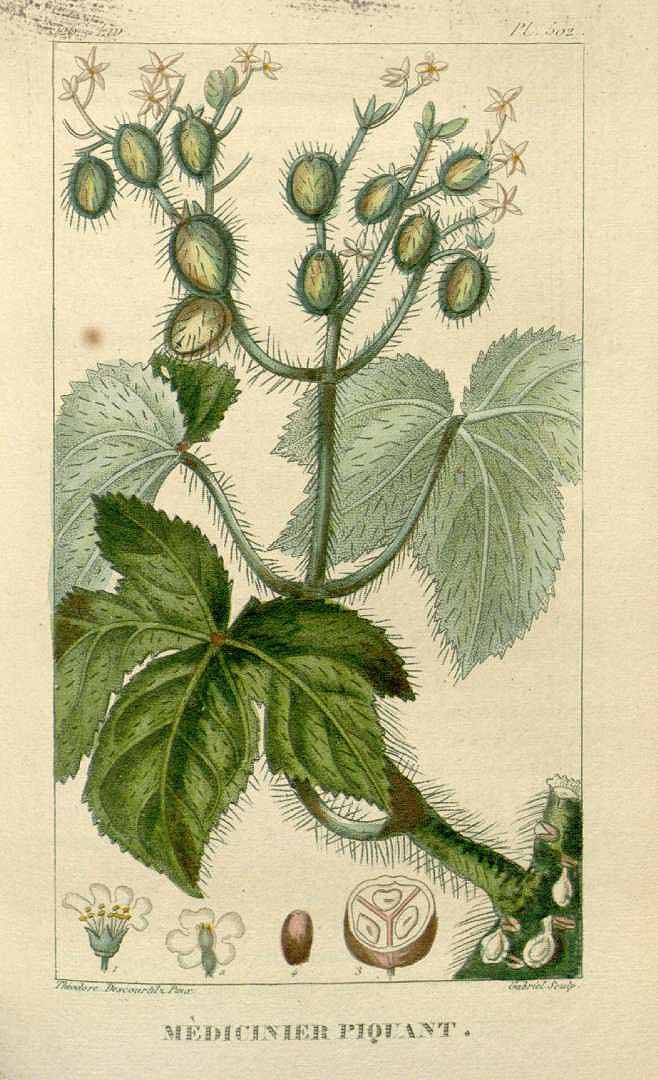 Plate from "Flore pittoresque et medicale des Antilles", depicting Cnidoscolus urens